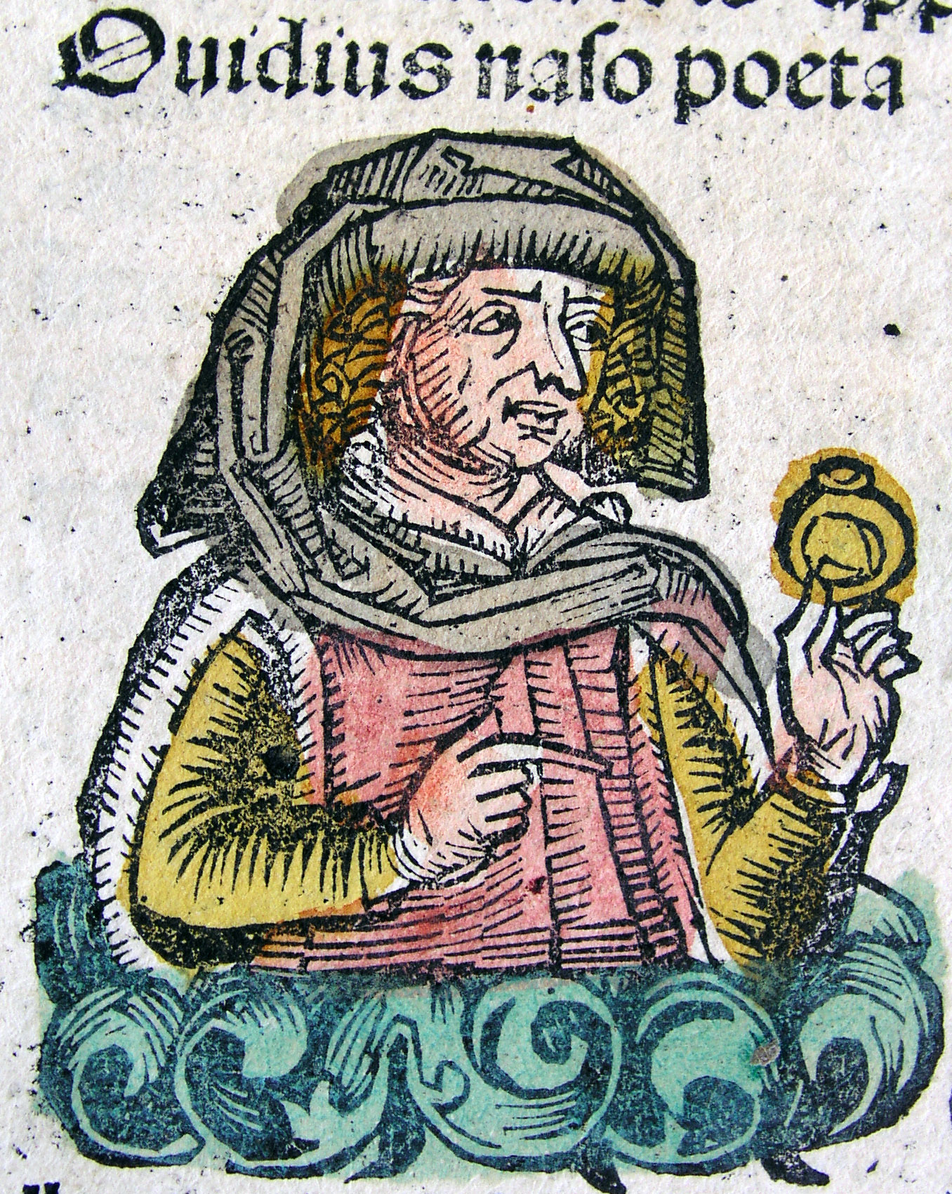 Woodcut from the Nuremberg Chronicle